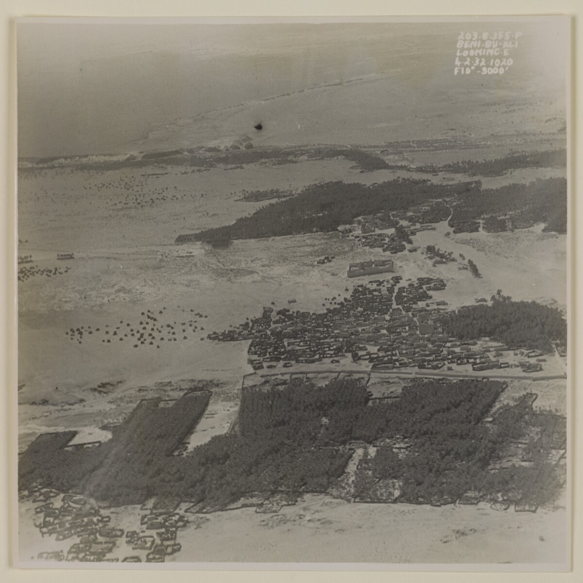 This aerial view of Bani Bu Ali looking east was taken on 4 February 1932 by the Royal Air Force during a reconnaissance mission in advance of a planned bombardment of Aiqa and Jaalan (Ja‘alān) in Oman.